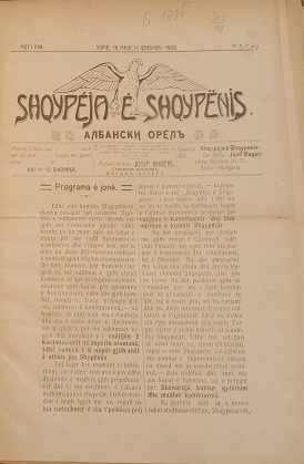 Shqypeja e Shqypenis